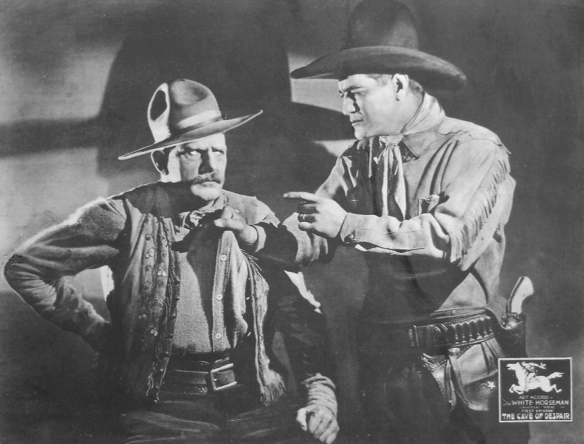 Lobby card for the American western film serial The White Horseman (1921). This is from chapter 1 "The Cave of Despair".